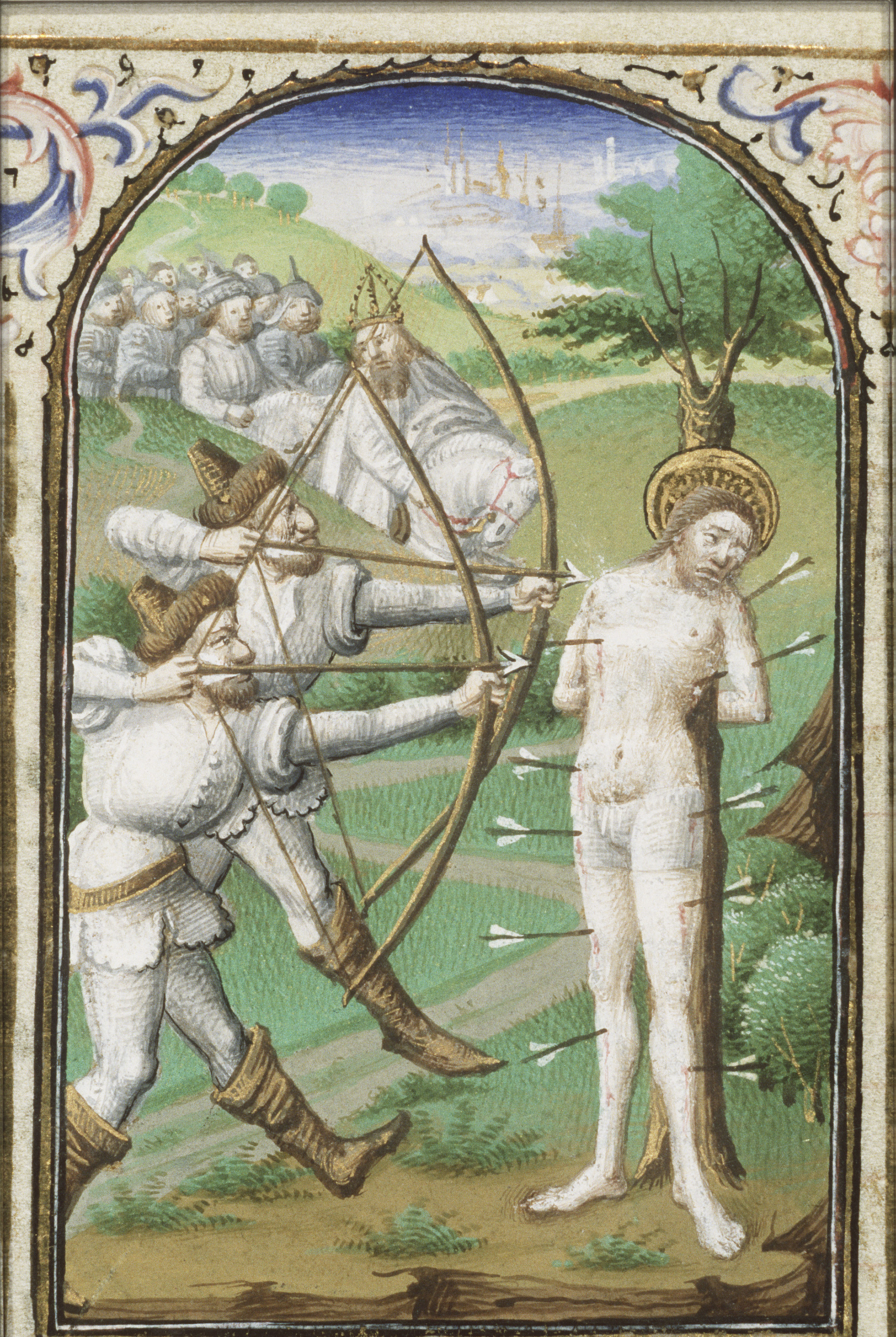 The martyrdom of St. Sebastian - tied to a tree, he is pierced by arrows - miniature from folio 076v from the Book of Hours of Simon de Varie - KB 74 G37 Topics depicted in this miniature St. sebastian pierced by arrows, the archers visible (11H(SEBASTIAN)621) Violent death by arrow(s) - ee - death not certain; wounded person (31EE23461) This miniature is part of folio 076v